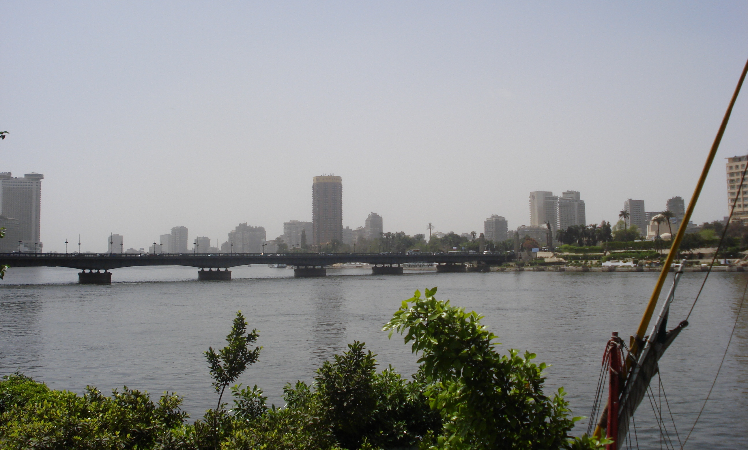 Qasr al-Nil Bridge